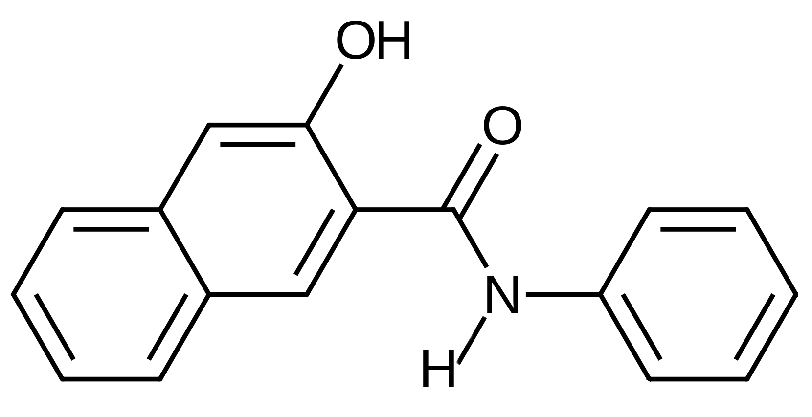 Naphtol AS